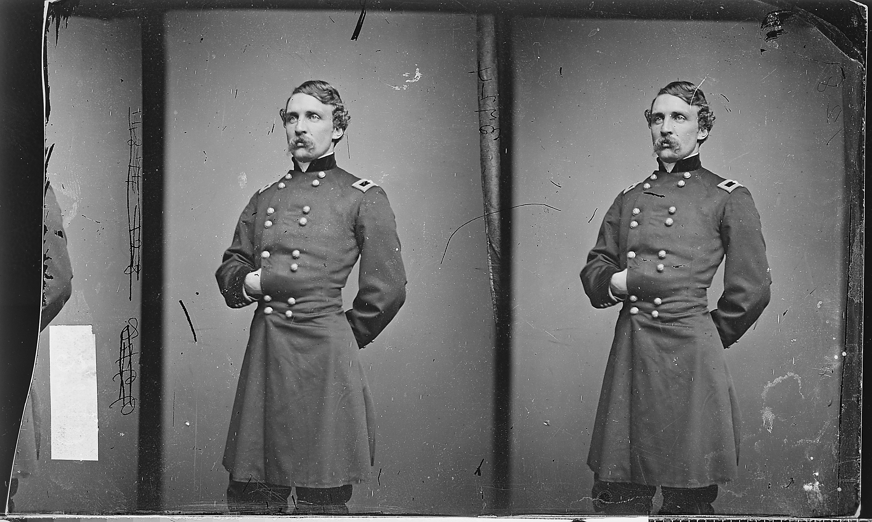 Original Caption: Camp scene U.S. National Archives’ Local Identifier: 111-B-1992 From:: Series: Mathew Brady Photographs of Civil War-Era Personalities and Scenes, (Record Group 111) Photographer: Brady, Mathew, 1823 (ca.) - 1896 Coverage Dates: ca. 1860 - ca. 1865 Subjects: American Civil War, 1861-1865 Brady National Photographic Art Gallery (Washington, D.C.) Persistent URL: Repository: Still Picture Records Section, Special Media Archives Services Division (NWCS-S), National Archives at College Park, 8601 Adelphi Road, College Park, MD, 20740-6001. For information about ordering reproductions of photographs held by the Still Picture Unit, visit: Reproductions may be ordered via an independent vendor. NARA maintains a list of vendors at Access Restrictions: Unrestricted Use Restrictions: Unrestricted